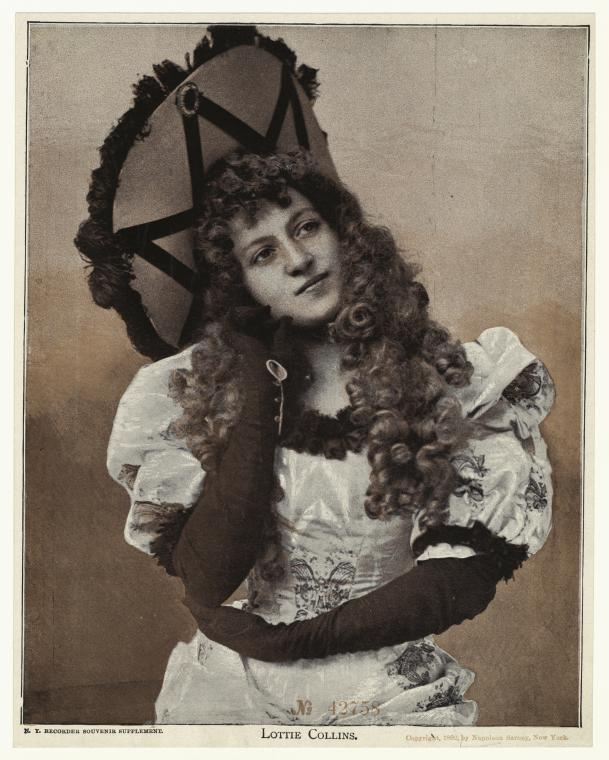 Halftone photomechanical print